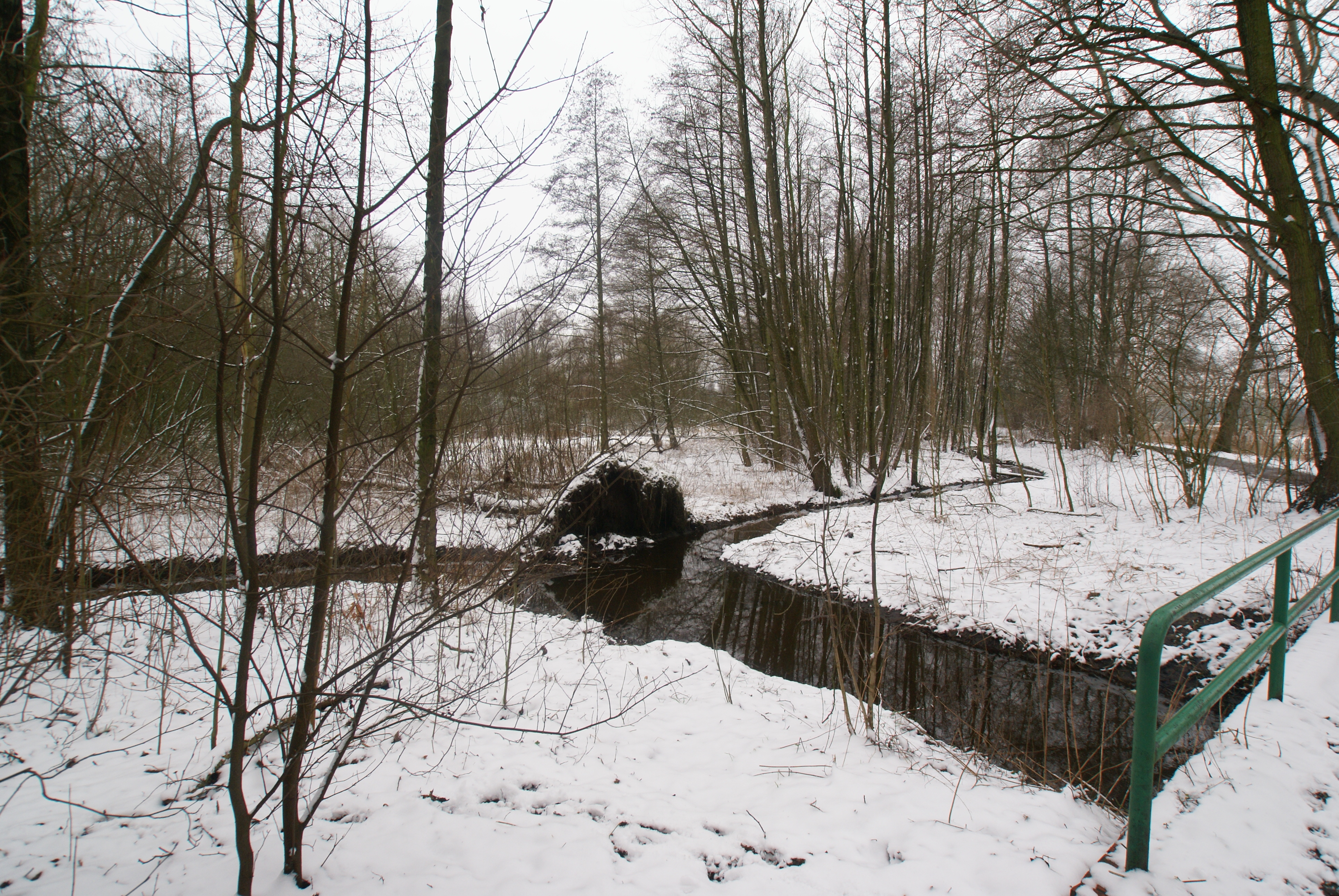 Hamburg (Niendorf), Germany: The river Vielohgraben